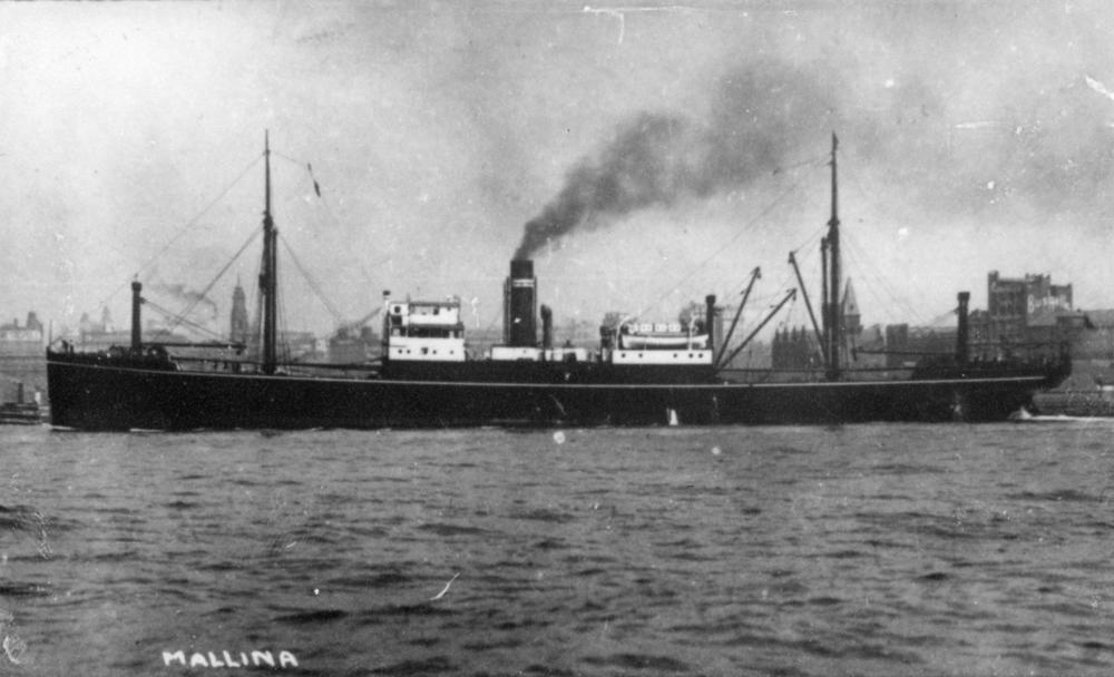 Australasian United Steam Navigation's 3,099 GRT cargo ship Mallina, built by Harland and Wolff in Belfast in 1909. The Royal Australian Navy requisitioned her in 1914 and returned her to her owners in 1915.Machida Shokai of Kobe bought her in 1929 and renamed her Seiko Maru. Kita Nippon Kisen bought her in 1935 and renamed her Siberia Maru. Nipponkai Kisen bought her in 1940 and kept her name the same. In September 1944 Allied aircraft sank her in the Philippines.